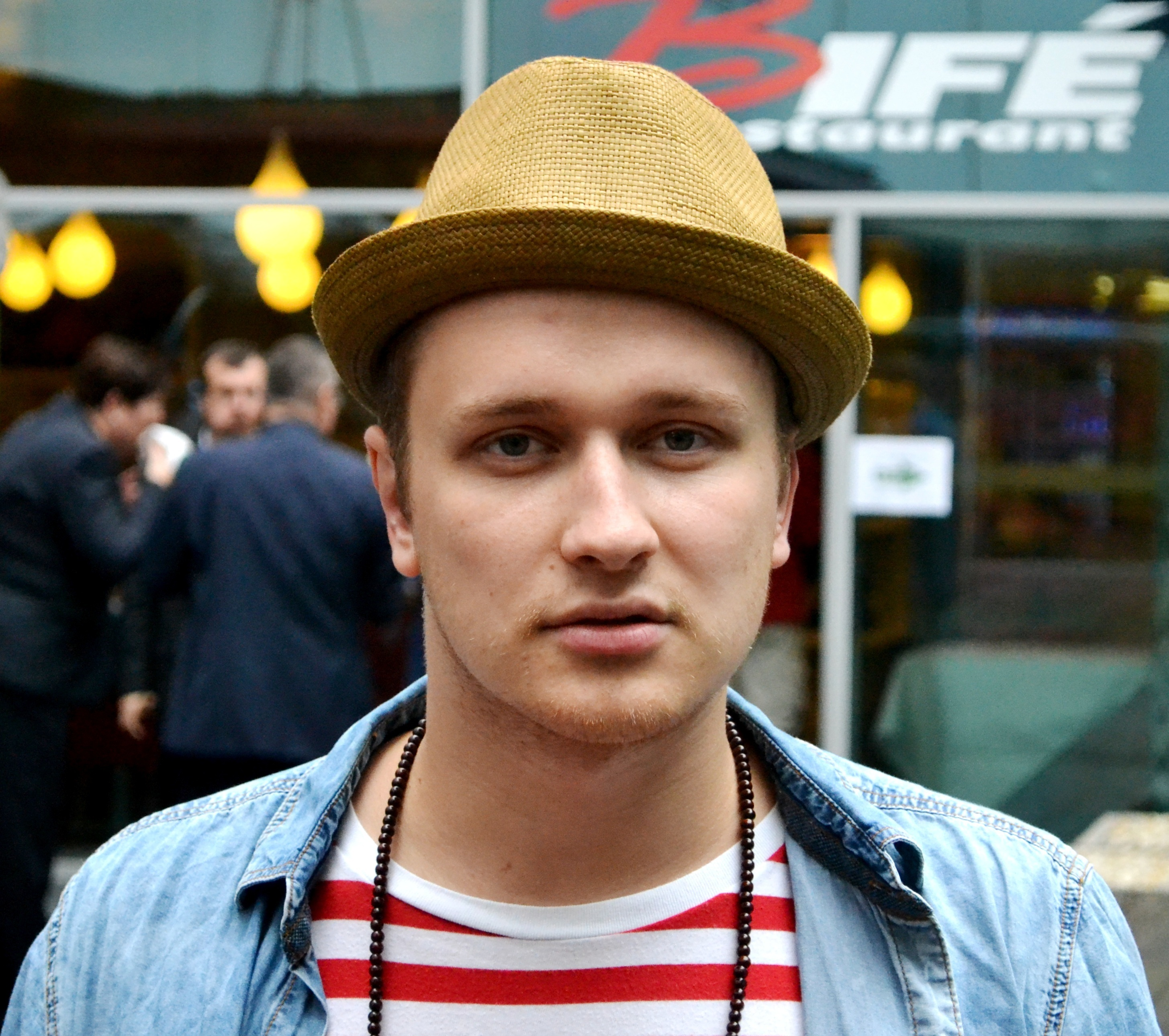 Václav Lebeda, stage name Voxel, Czech musician